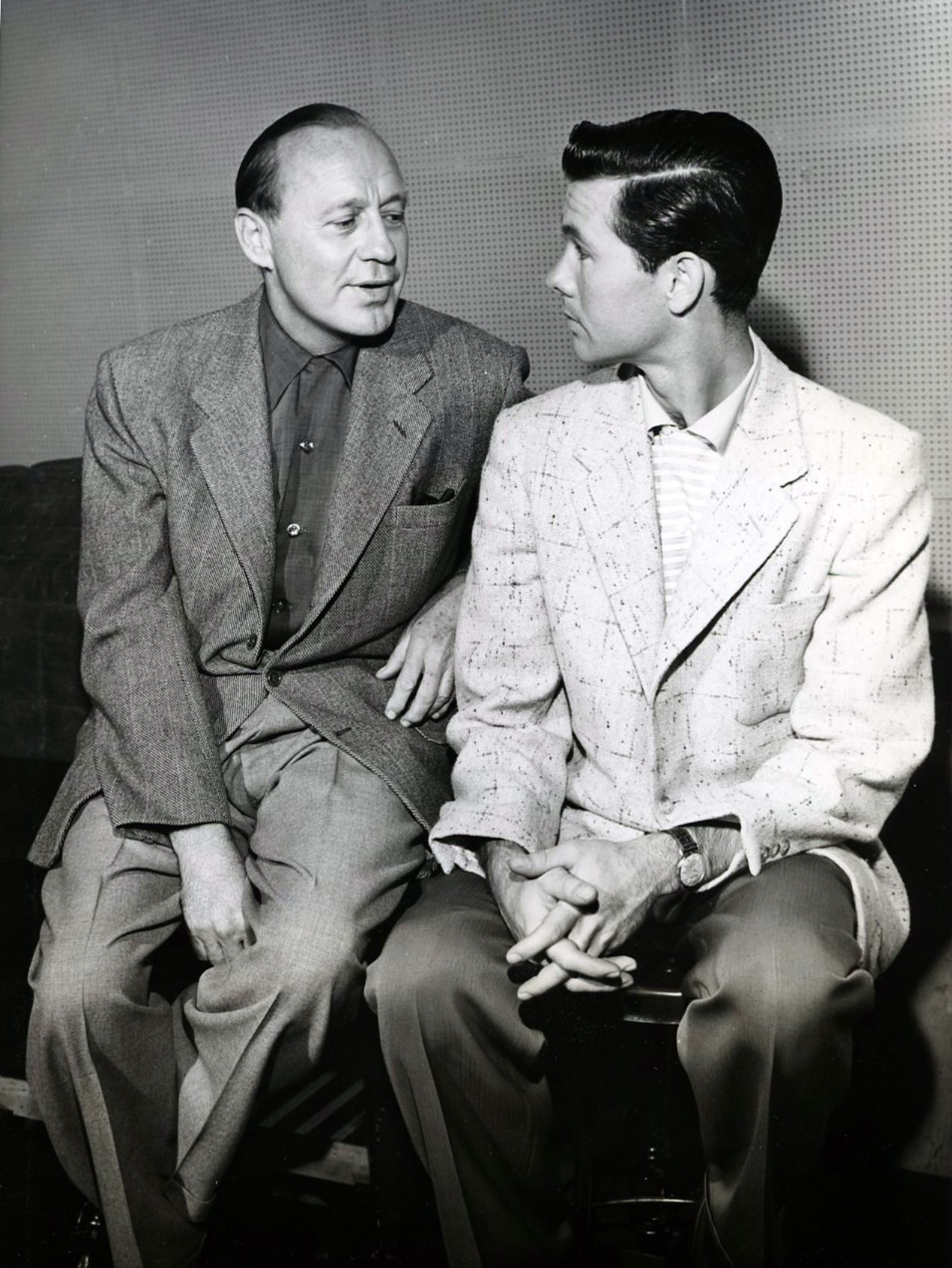 Photo of Jack Benny and young Johnny Carson as the guest on his television program The Jack Benny Show. Benny invited the young comedian to appear on his program in 1955. Carson performed and also received advice from Benny, who predicted that he would be a success as a comedian during this show.